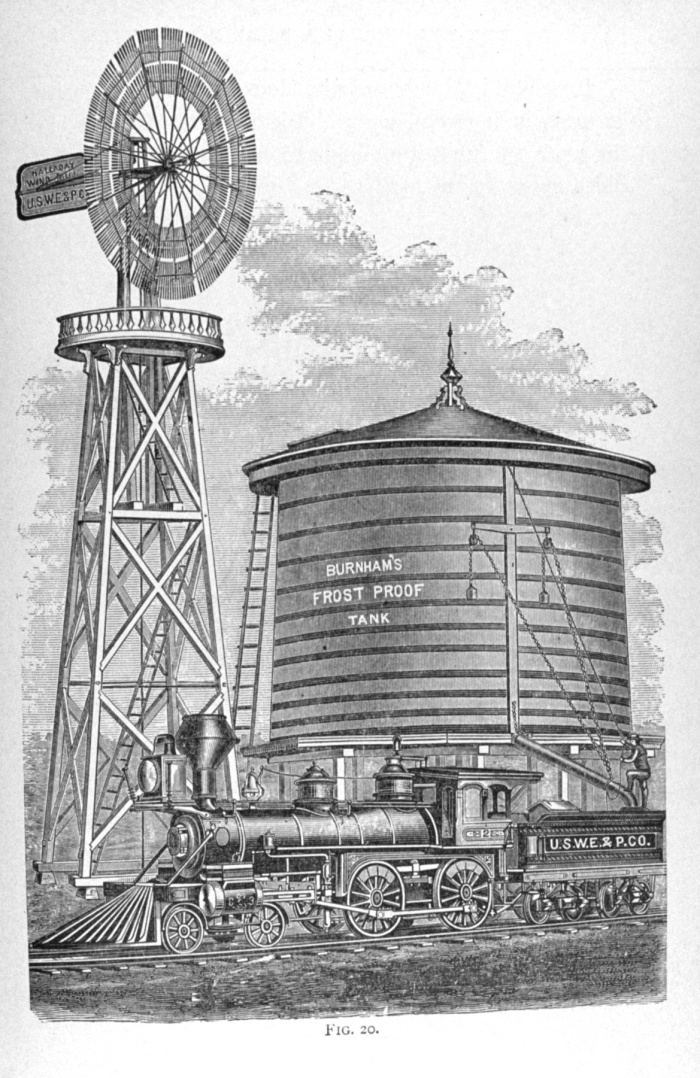 Figure 20. The Halladay geared windmill was in more extensive use for railway water stations than any other mill. Relative scale is shown by comparison with locomotive and worker tending water spout.